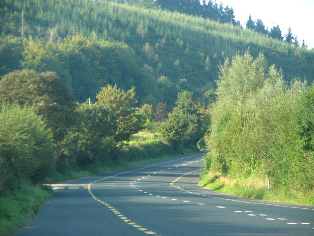 Road scene Road view on the main n76.